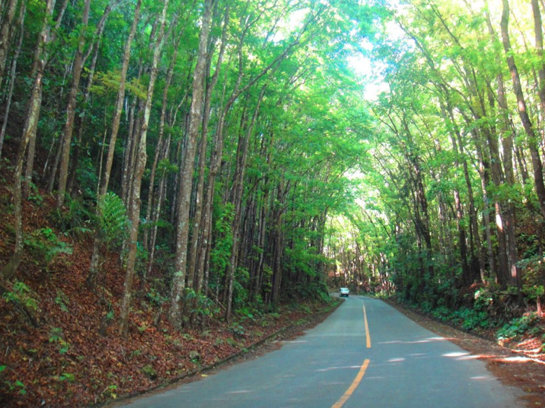 Mahogany man made forest, Bohol